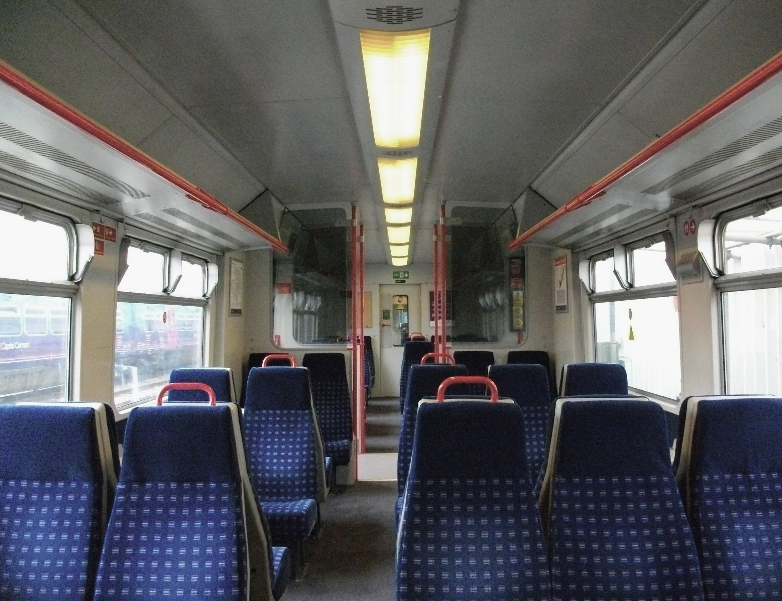 A half internal view of refreshed Standard Class aboard the TSO vehicle from a First Capital Connect Class 321.